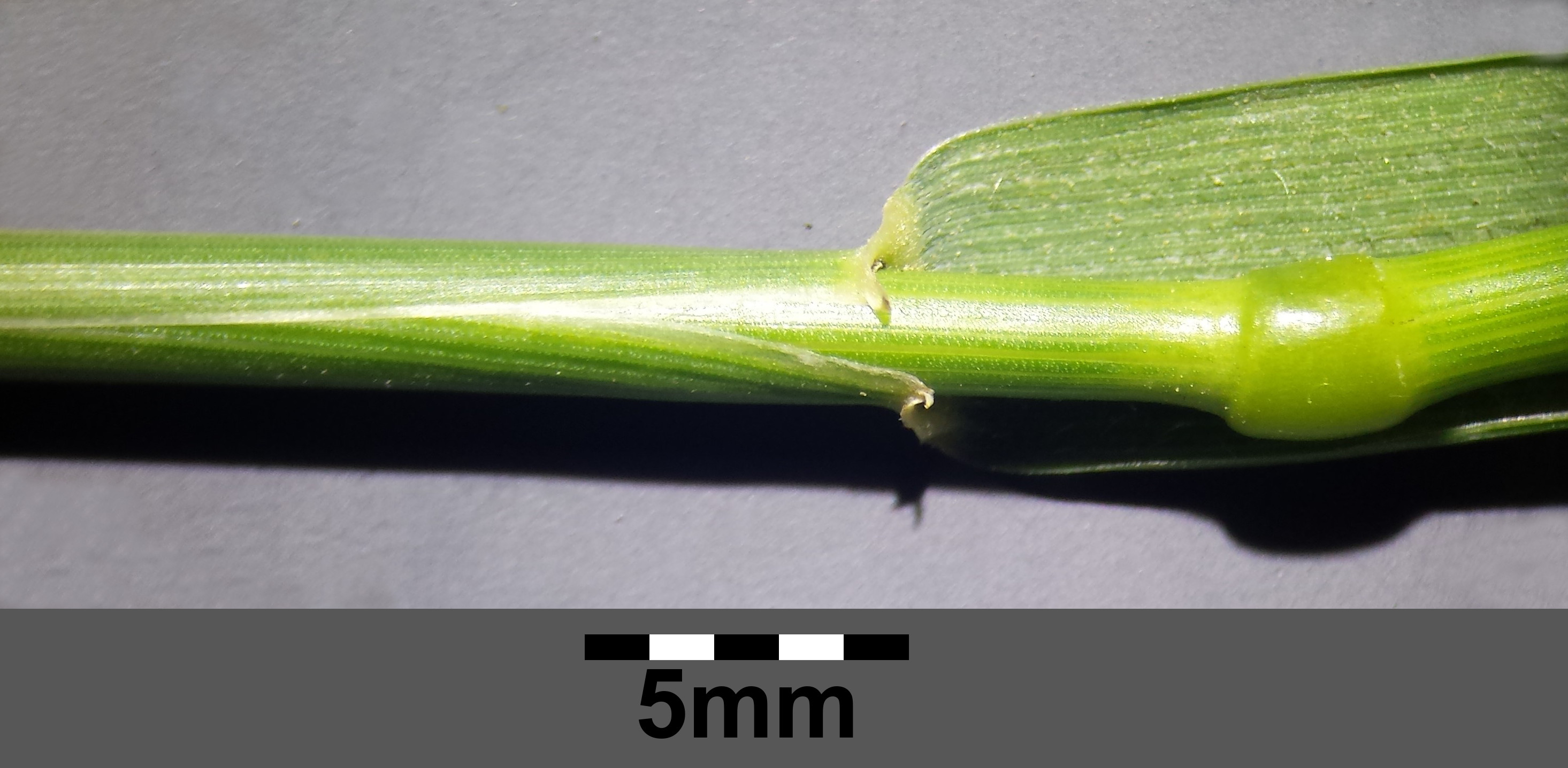 Stipe with leaf sheath Taxonym: Elymus repens ss Fischer et al. EfÖLS 2008 ISBN 978-3-85474-187-9 Location: near Niederhollabrunn, district Korneuburg, Lower Austria - ca. 350 m a.s.l. Habitat: meadows